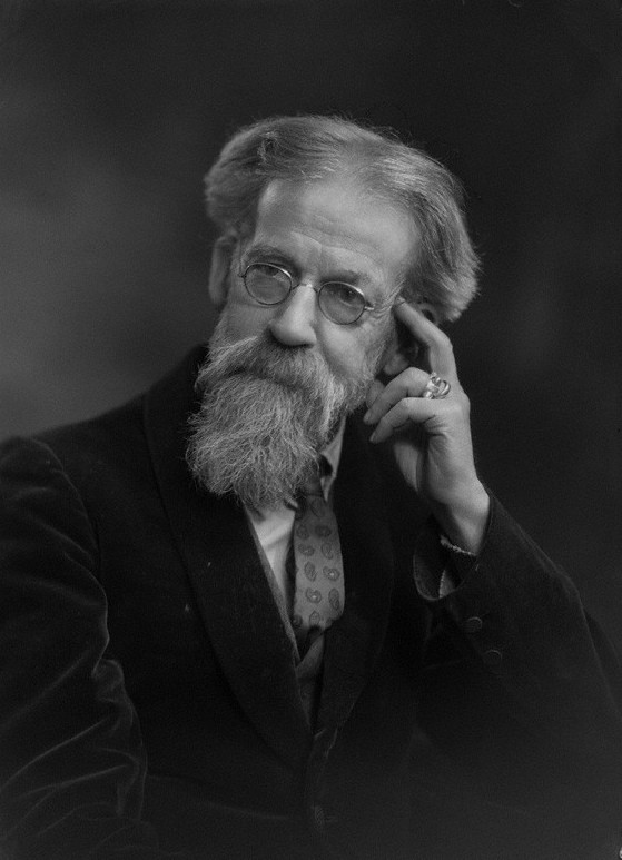 by Lafayette (Lafayette Ltd), half-plate nitrate negative, 30 December 1931